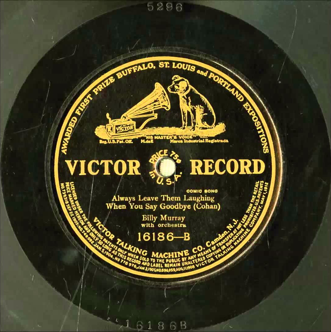 Always Leave Them Laughing When You Say Goodbye was a popular song, first published in 1903 and written by George M. Cohan. Today the best known recording of the song is by Billy Murray, which was recorded in 1907 on Victor Records and whose version has entered the public domain. This is a picture of that public domain record.